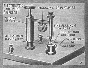 Circuit of an early radio receiver with electrolytic detector, from the very start of the 20th century. A battery and potentiometer apply a small bias voltage to the electrolytic detector. The electrolytic polarization of the anode is very fast. The anode is a very fine platinum wire 1/100 of millimetre in diameter, while the cathode is a lead or platinum plate or large wire. The alternating signal from the tuned circuit partially depolarizes the anode in response to the amplitude modulation, which draws a DC current from the battery which varies with the modulation, to repolarise the anode. This current passes through the earphone, which converts the audio current to sound. The electrolytic detector functions with a bias voltage of between 1.5 and 2.5 volts. To adjust it, the bias voltage is first adjustad to maximum, 2.5 volts. As soon as water bubbles indicate that electrolysis is occurring, and a noise is heard in the earphone, the bias voltage is slowly turned down until the noise completely disappears. Then the antenna is connected. The detector must be readjusted in the event of a change of temperature, barometric pressure, vibration, or shock. The electrolytic detector has a sensitivity of 7 nanowatts. It is unstable when subjected to movement or vibration, so it is only usable in fixed stations, not in portable or mobile radios, ships, aircraft, or airships. It was only used in early receivers for a short time due to its complexity of maintenance.